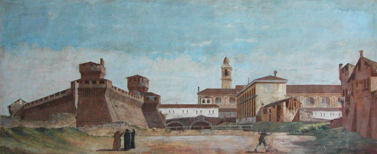 Angelo Mora (attribution) - The castle of Porta Serio in Crema tempera painted, dimensions 1,92 x 4, Villa Severgnini, Izano (Italy), XIXth century